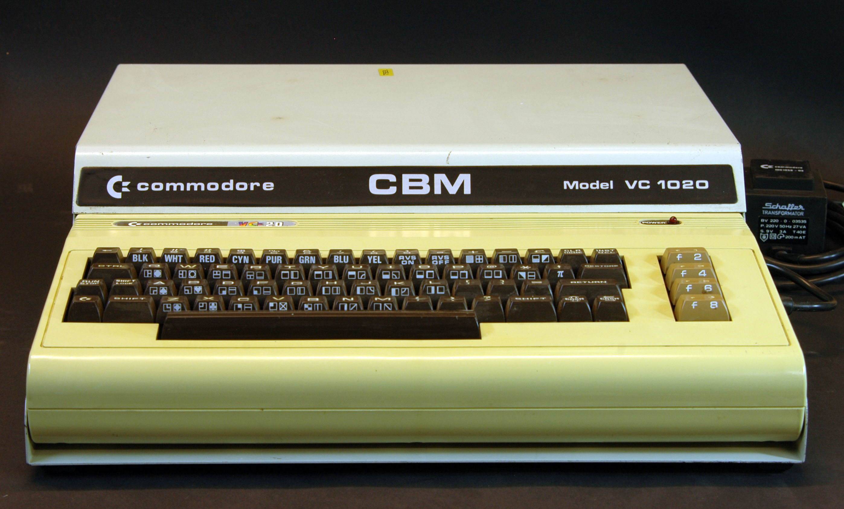 Commodore VIC-20 inserted into the VC 1020 Expansion Box